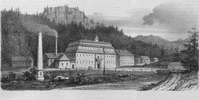 Paper mill, Hermanecz